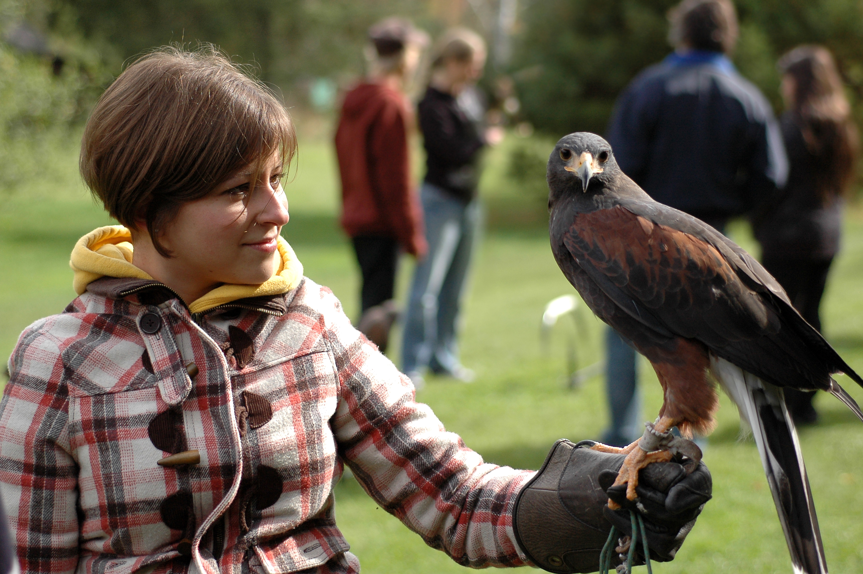 A Harris's Hawk at a falconry show in 2010.